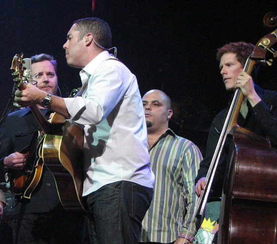 Barenaked Ladies (l-r) Kevin Hearn, Ed Robertson, Tyler Stewart and Jim Creeggan play a 2008 holiday show at Massey Hall in Toronto.